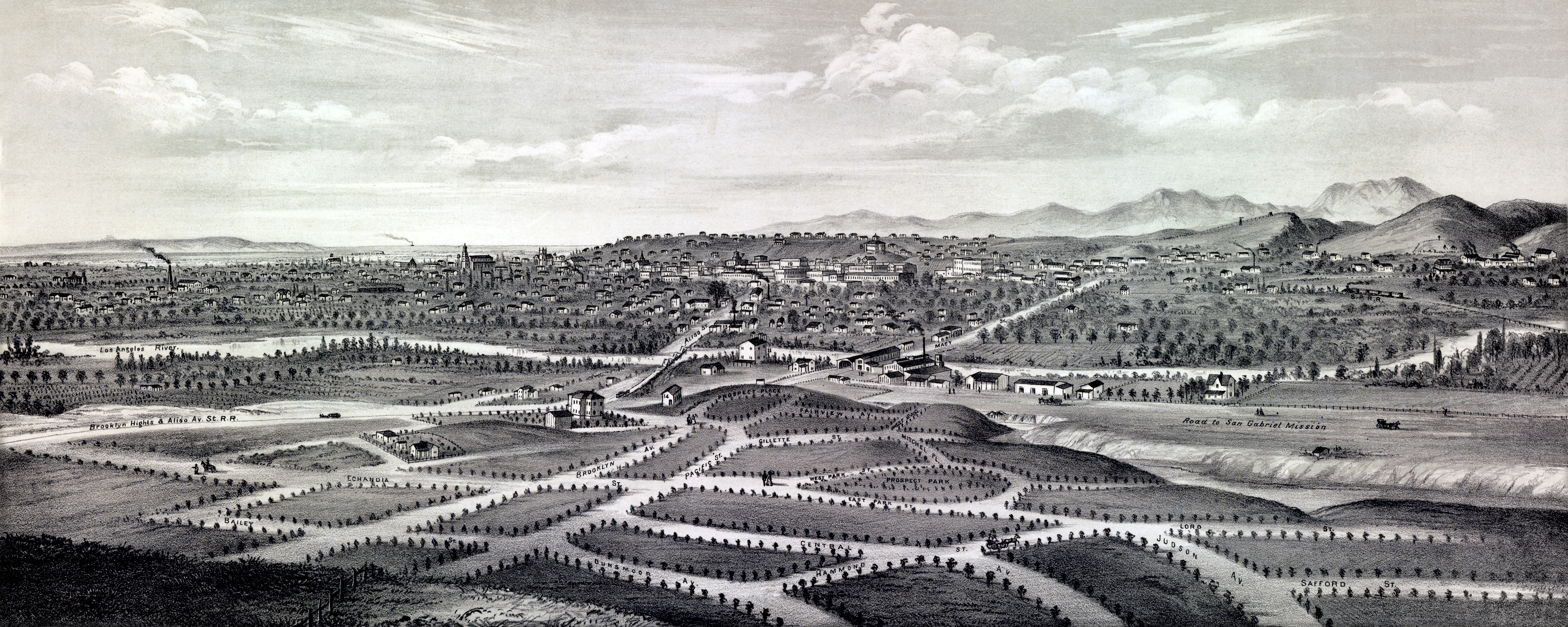 See "Other Versions" for uncropped original. CREATED/PUBLISHED Los Angeles, Brooklyn Land and Building Co., c1877. NOTES Perspective map not drawn to scale. Bird's-eye-view. Indexed for points of interest. Reference: LC Panoramic maps (2nd ed.), 25 SUBJECTS Los Angeles (Calif.)--Aerial views. Brooklyn Hights, Calif.--Aerial views. United States--California--Los Angeles. United States--California--Brooklyn Hights. RELATED NAMES A.L. Bancroft & Company. Brooklyn Land and Building Co. MEDIUM col. map 25 x 60 cm. CALL NUMBER G4364.L8A3 1877 .G6 REPOSITORY Library of Congress Geography and Map Division Washington, D.C. 20540-4650 USA DIGITAL ID g4364l pm000250